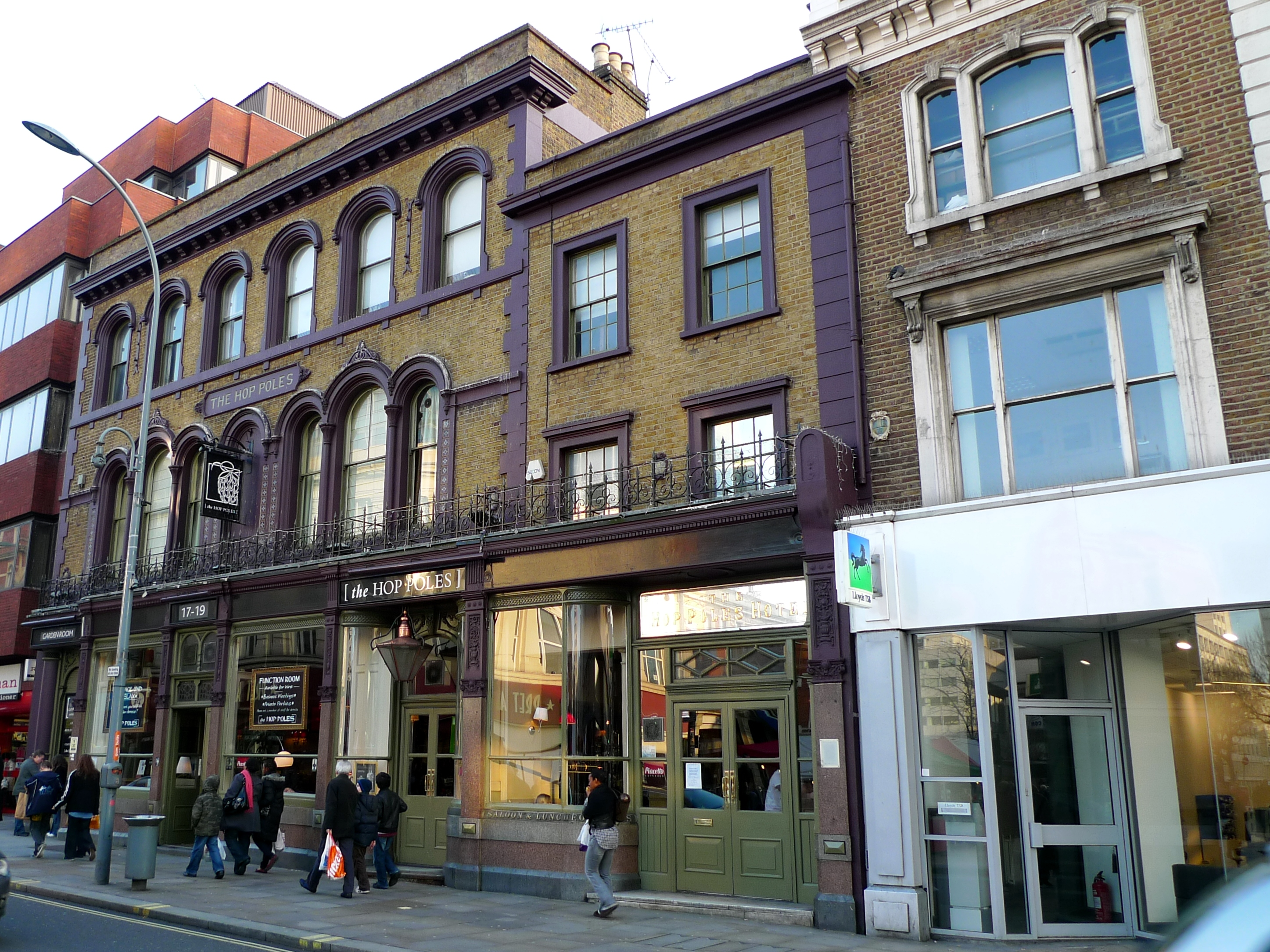 Nice looking place near Hammersmith stations, but I can't vouch for what it's like inside. Address: 17-19 King Street (formerly King Street West). Former Name(s): The Three Hop Poles (on the same site); The Manchester Arms (on the same site). Owner: TCG Acquisitions (website); Punch Taverns [Spirit Group] (former). Links: Fancyapint Pubs Galore Beer in the Evening Dead Pubs (history)